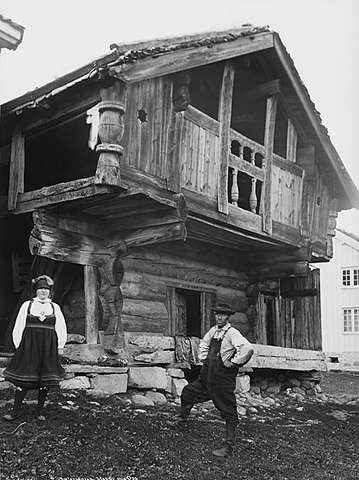 Loft in Setesdal, photography by Axel Lindahl